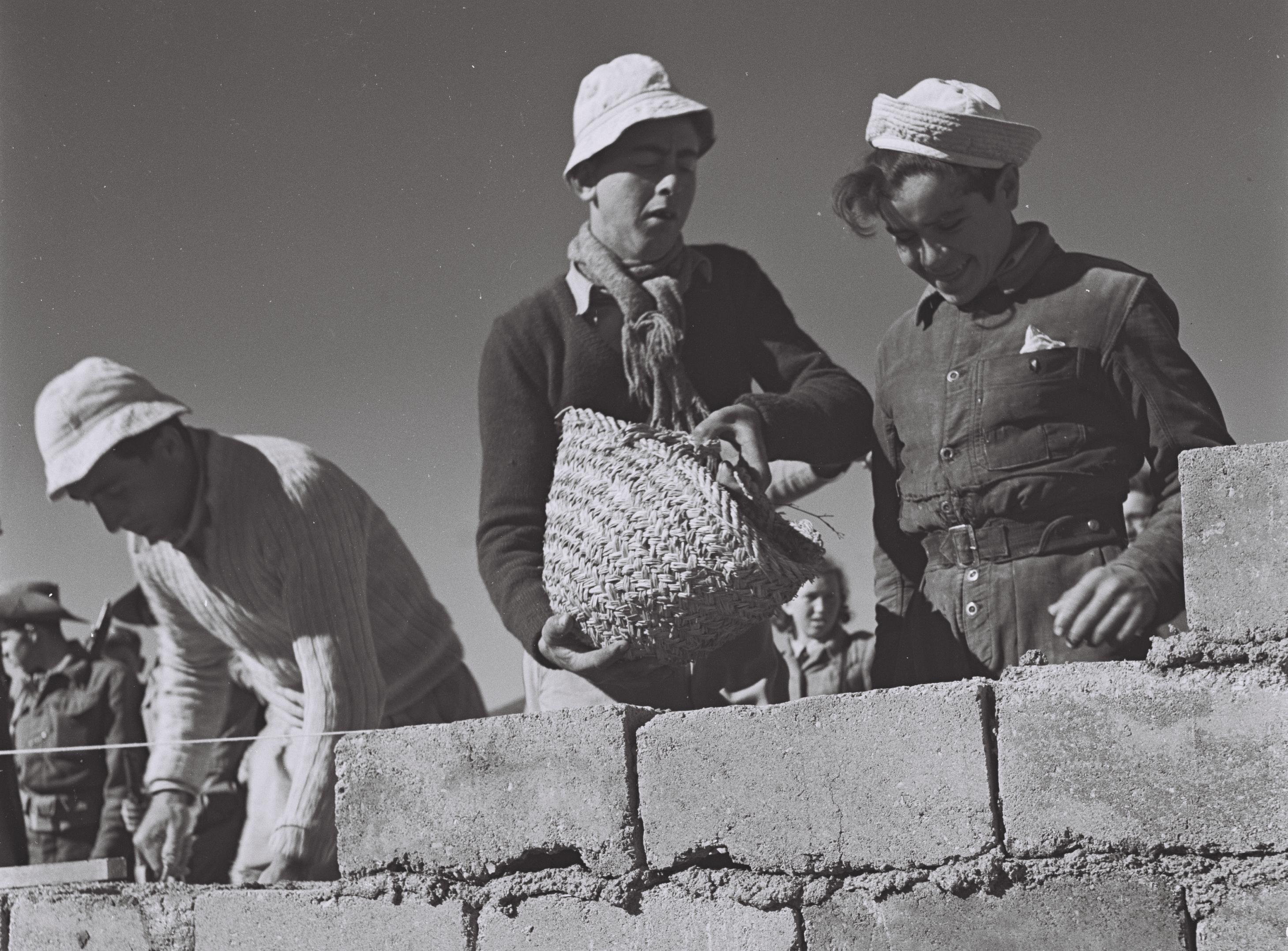 Settlers building the first house at Kibbutz Ein Zeitim.